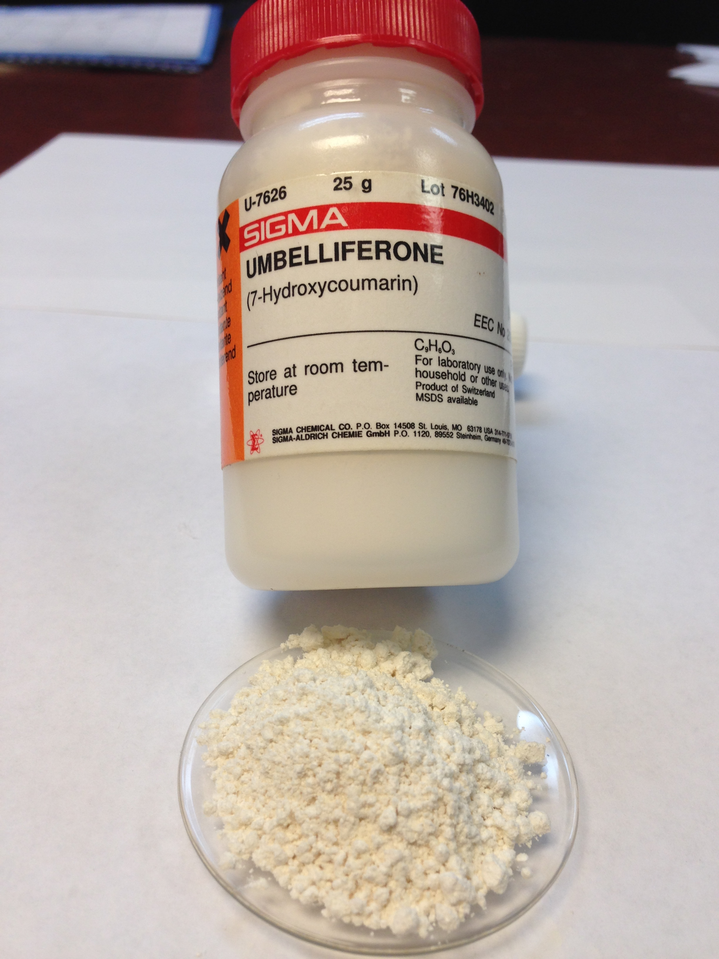 Umbelliferone, or 7-hydroxycoumarin, is a slightly yellow powder lacking the odor of coumarin, or any strong odor.